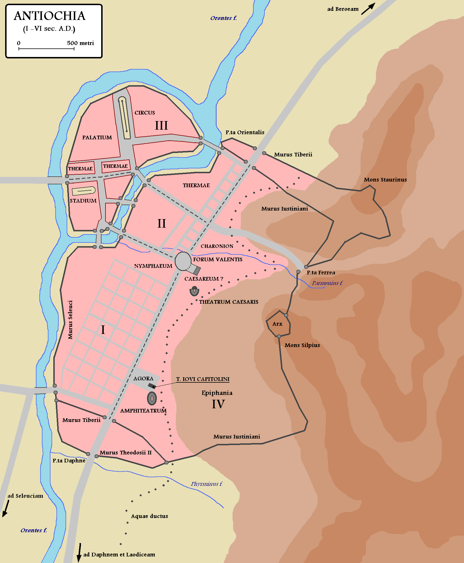 Map of Antiochia — capital of Roman Palestine.